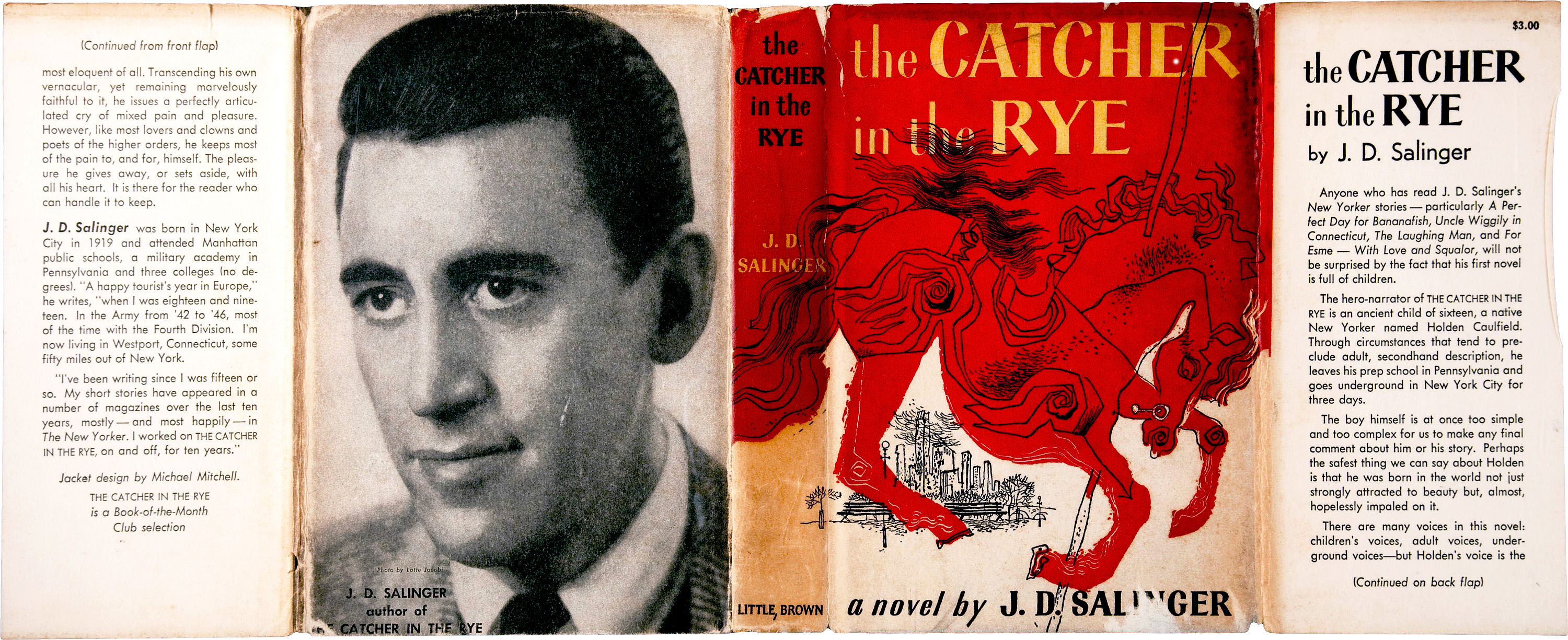 First-edition dust jacket of The Catcher in the Rye (1951) by the American author J. D. Salinger.